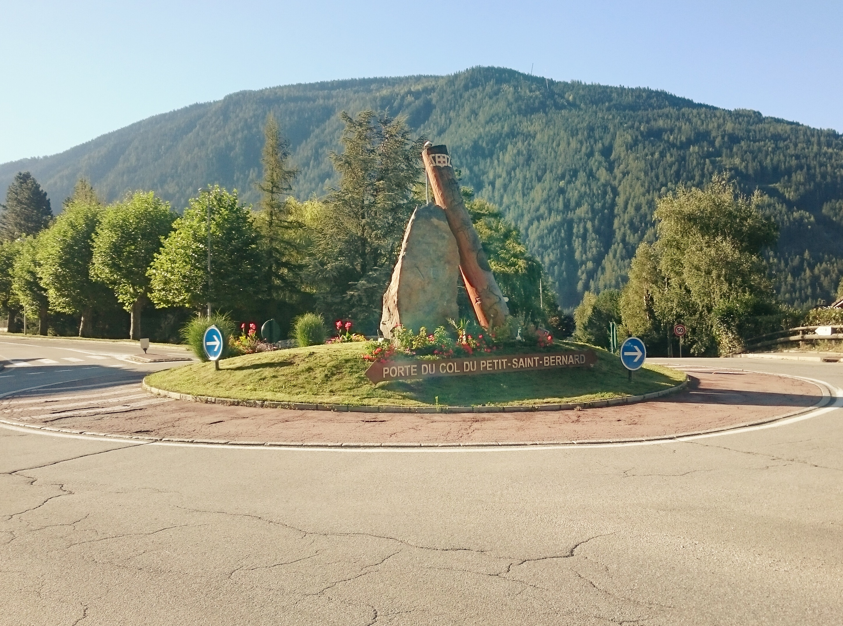 Begining of Séez from the way of Bourg St Maurice, view of the traffic circle named "Reclus".